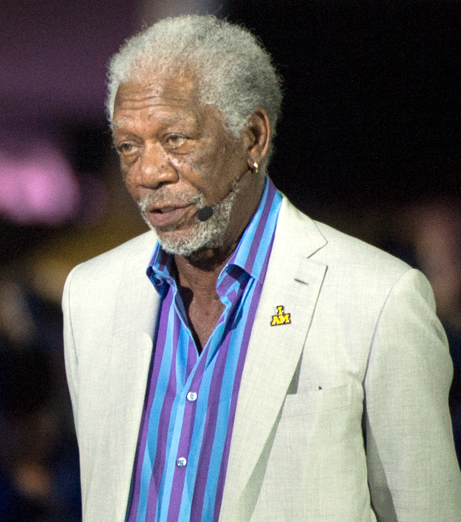 Academy Award-winning actor Morgan Freeman narrates for the opening ceremony to they 2016 Invictus games in Orlando, Fla. May 8, 2016. (DoD News photo by EJ Hersom)